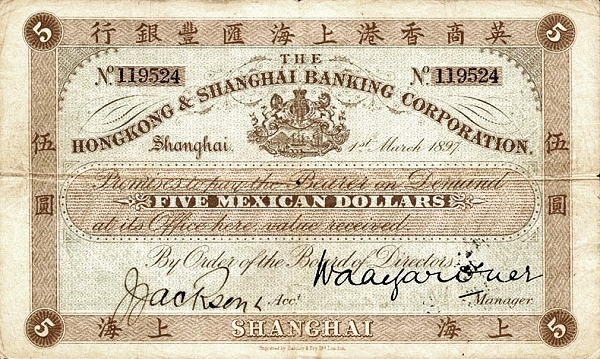 A banknote issued by the Hong Kong & Shanghai Banking Corporation for circulation in China while it was still under the rule of the Manchu Qing Dynasty denominated in "Mexican Dollars" (Mexican Pesos).